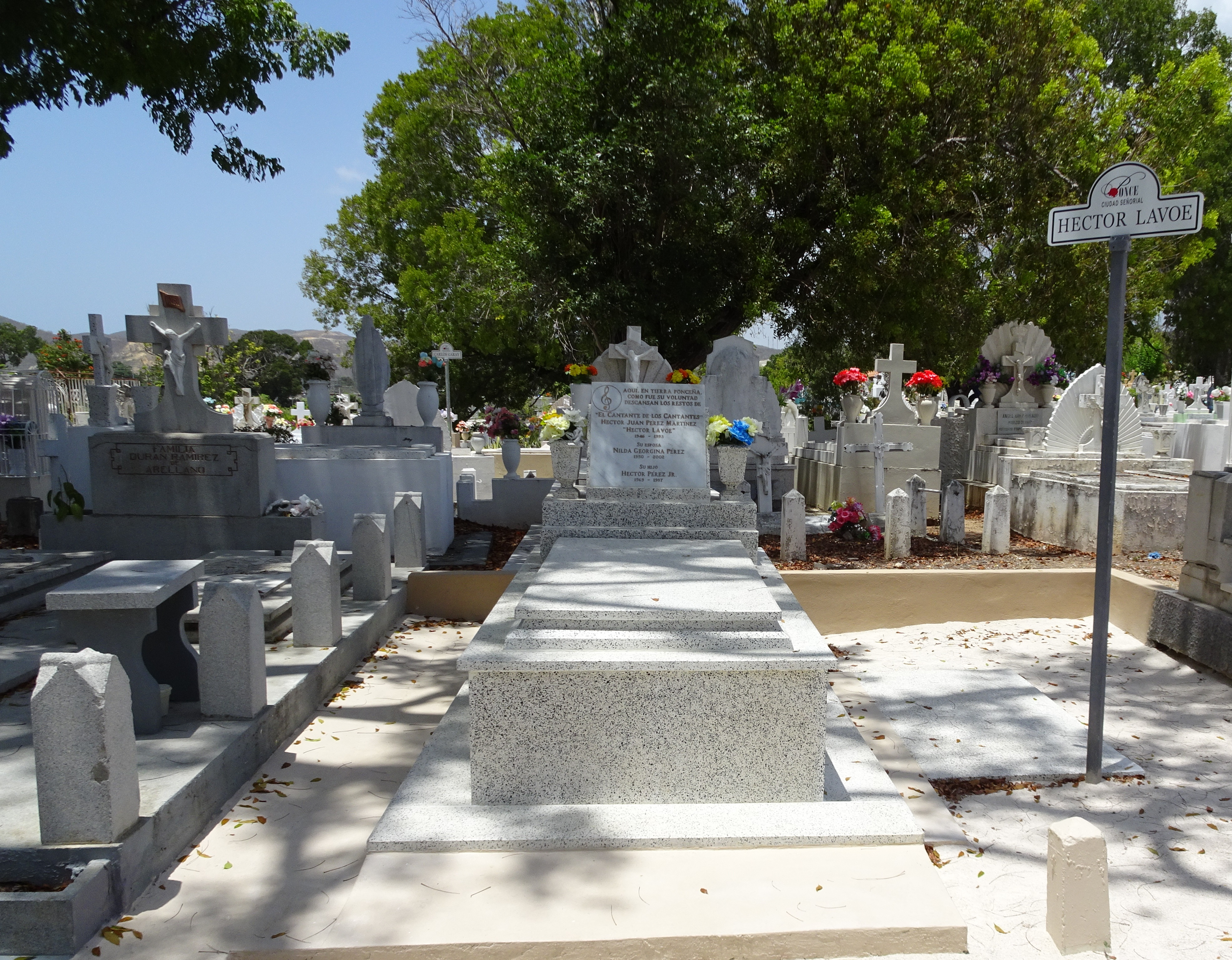 Tumba de Héctor Lavoe, Cementerio Civil de Ponce, Bo. Portugués Urbano, Ponce, Puerto Rico, mirando al oeste (DSC01432A)